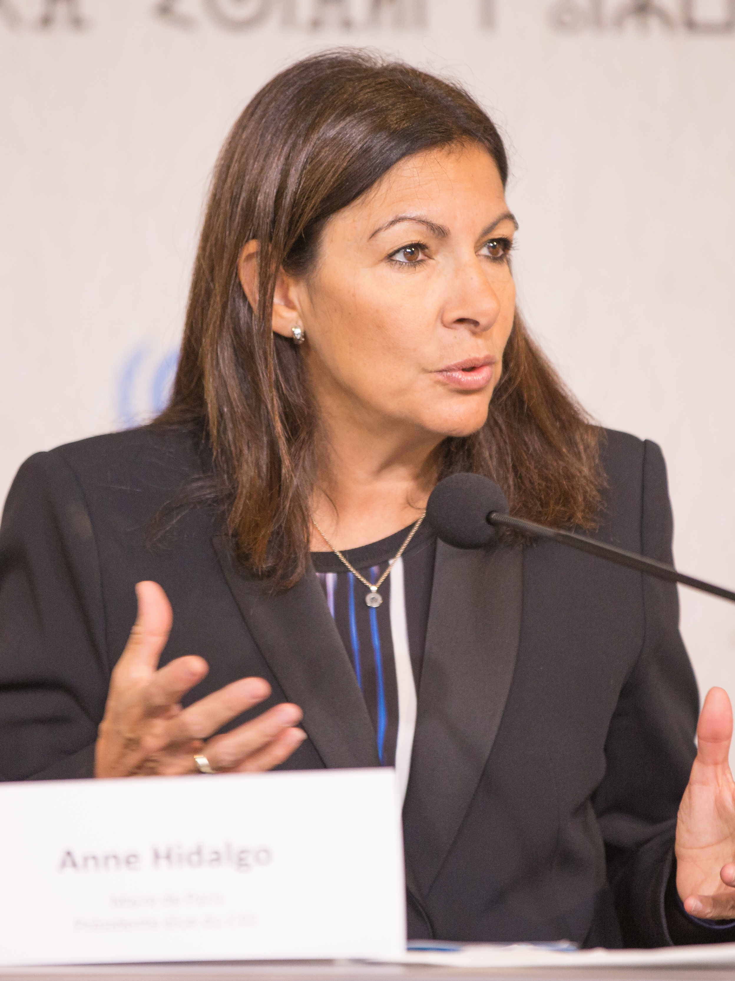 Women4Climate - with Anne Hidalgo, Patricia Espinosa and leading women in climate